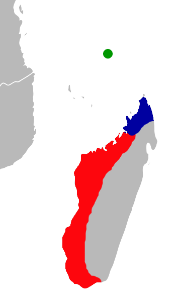 Distribution of the bat genus Paratriaenops in Africa, the Middle East, and Pakistan. Red: Paratriaenops furculus (Syn. Triaenops furculus); blue: Paratriaenops auritus (Syn. Triaenops auritus); green: Paratriaenops pauliani (new species found in 2008). Sources: Russell et al. (2007, Mol. Ecol. 16:841 fig. 1); Goodman and Ranivo (2008, Zoosystema 30:683 fig. 1).